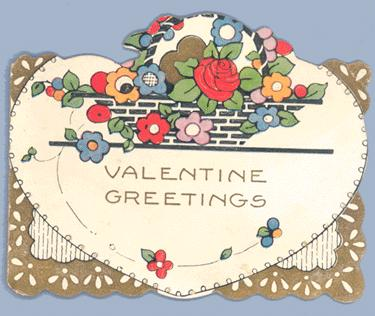 Scan of a Valentine greeting card circa 1920.